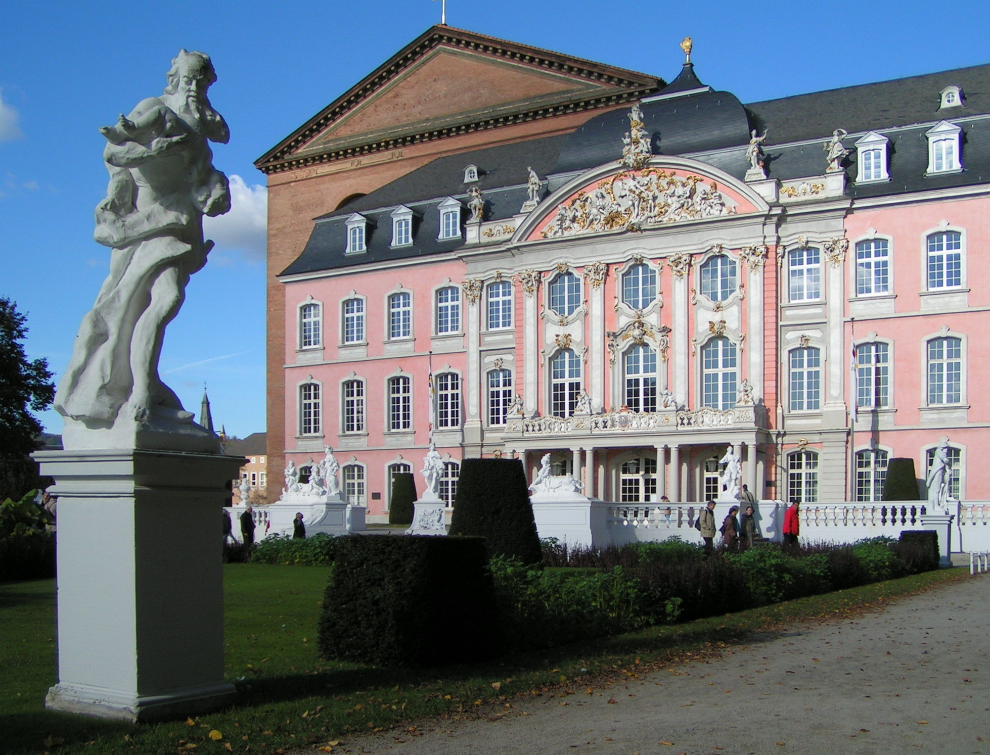 Kurfürstliches Palais, Trier, Germany